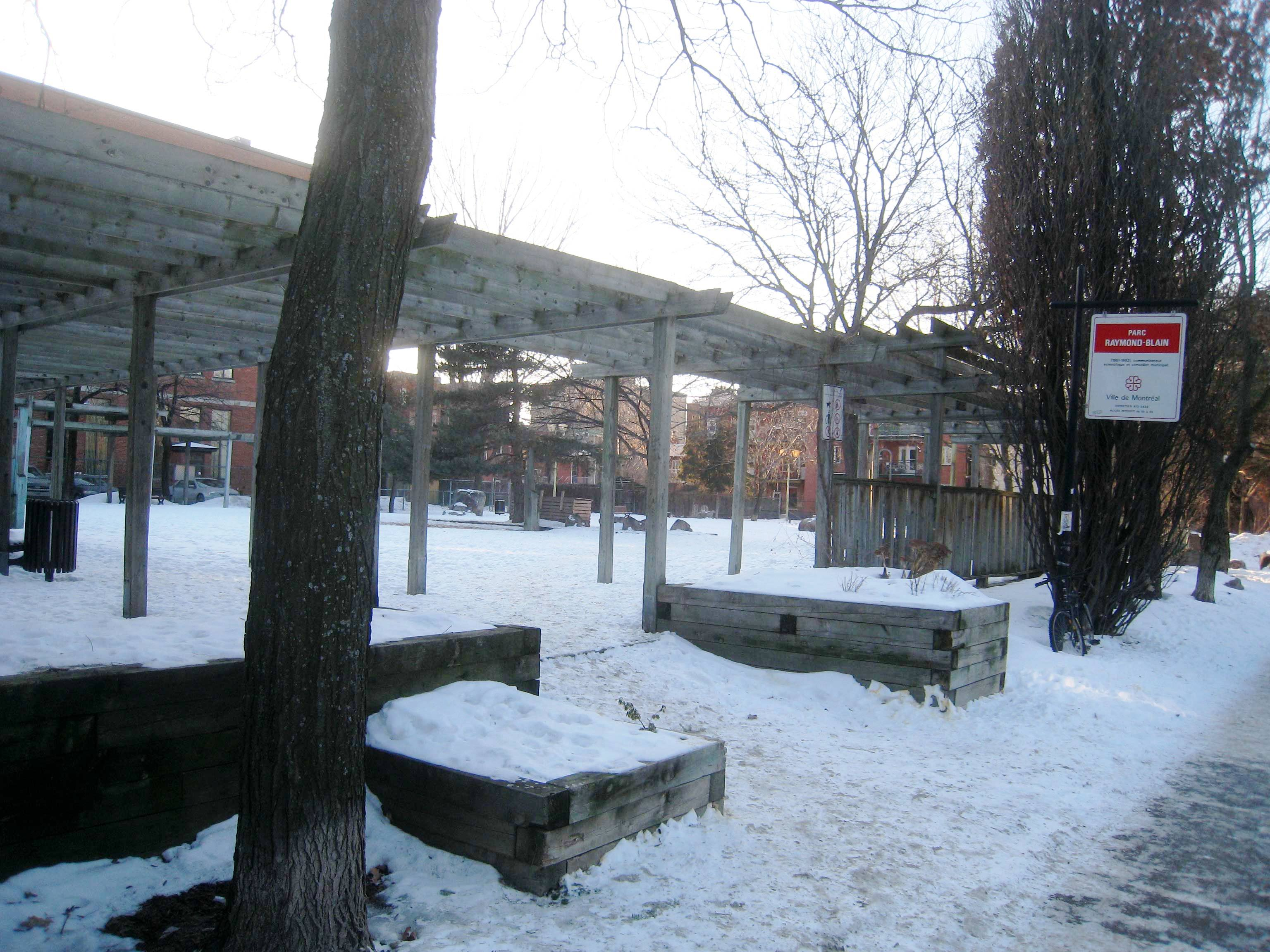 The parc Raymond-Blain, located on Panet Street, between Lafontaine and Logan streets, is located in the heart of Montreal's Gay Village.